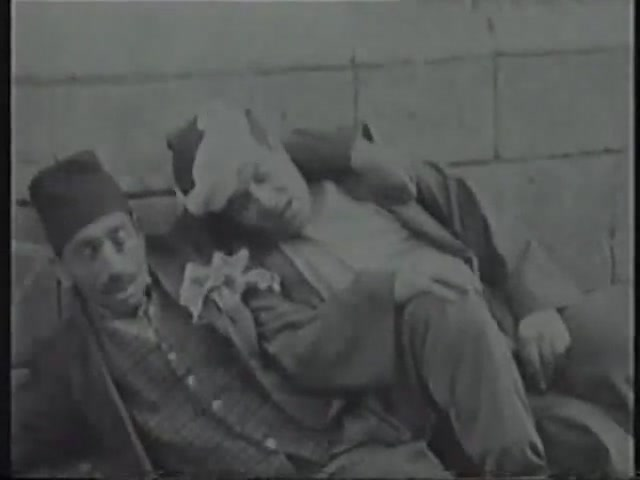 Barsoum Looking for a Job (1923 film), image extracted from film